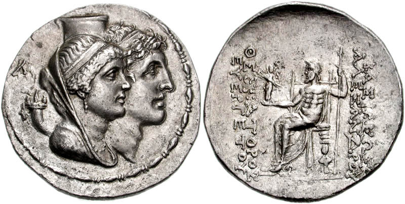 Marriage Commemorative silver Tetradrachm (33mm, 16.81 g). Jugate bust of Cleopatra Thea (as Tyche), veiled, diademed, wearing kalathos, cornucopiae over her shoulder, and head of Alexander, diademed, right; A behind / Zeus Nikephoros seated left; Nike stands facing, holding a thunderbolt.